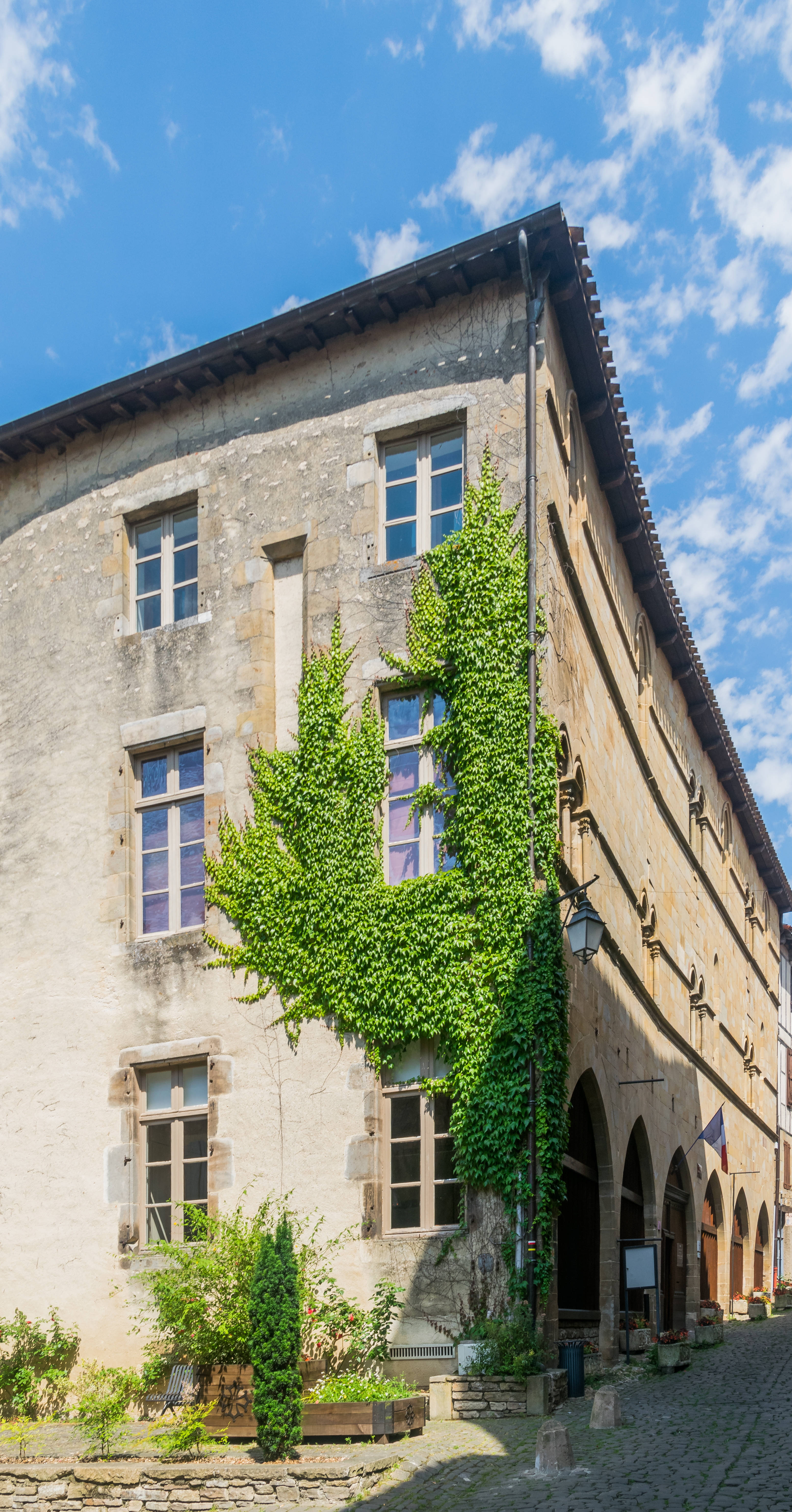 Maison Fompeyrouse, 32 Grand Rue Raimond VII, Cordes-sur-Ciel, Tarn, France